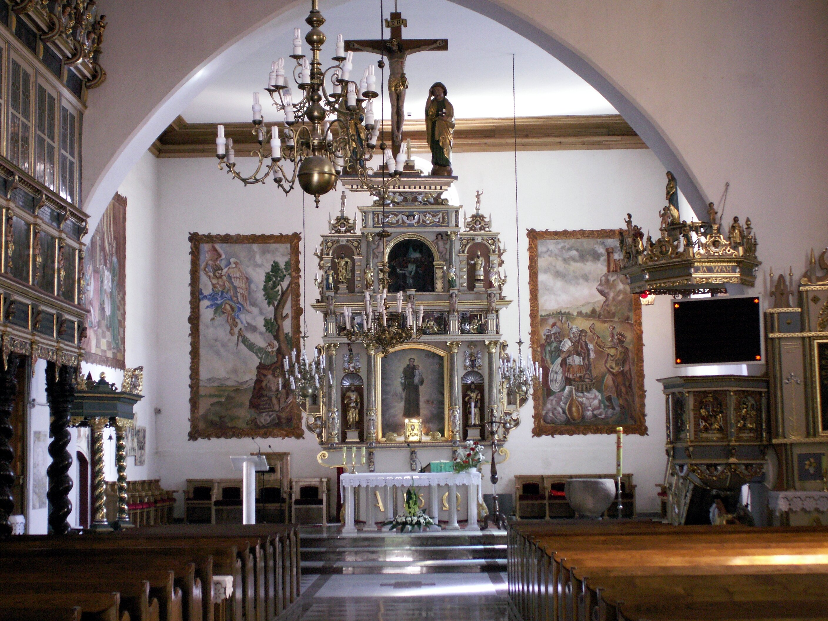 Susz, church Poland